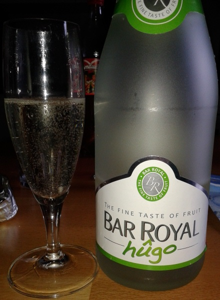 Bottle and glass of "Hugo", a wine-based cocktail populair in Tyrol (Austria) and South Tyrol (Italy).